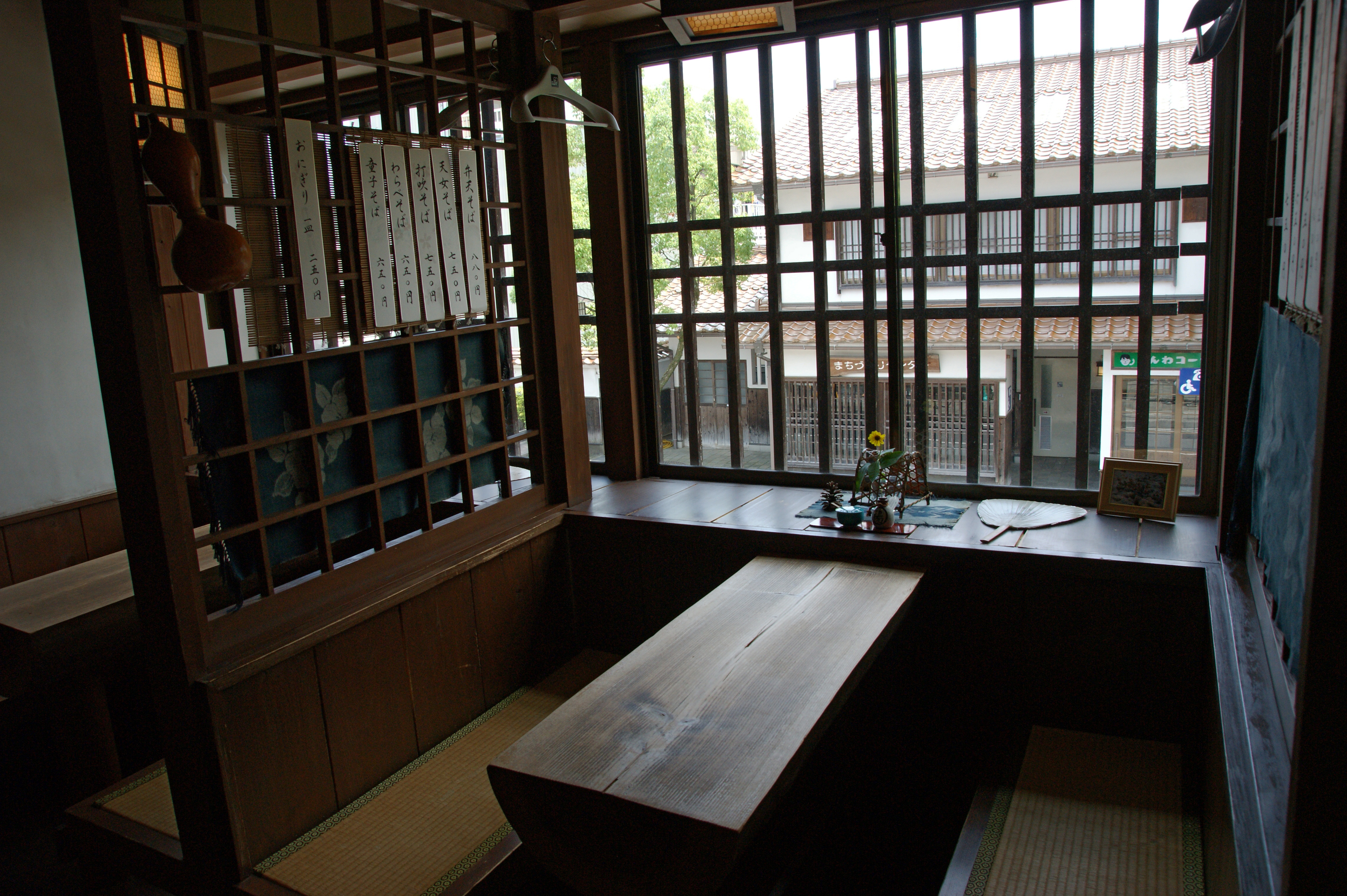 Utsubuki-tamagawa in Kurayoshi, Tottori prefecture, Japan